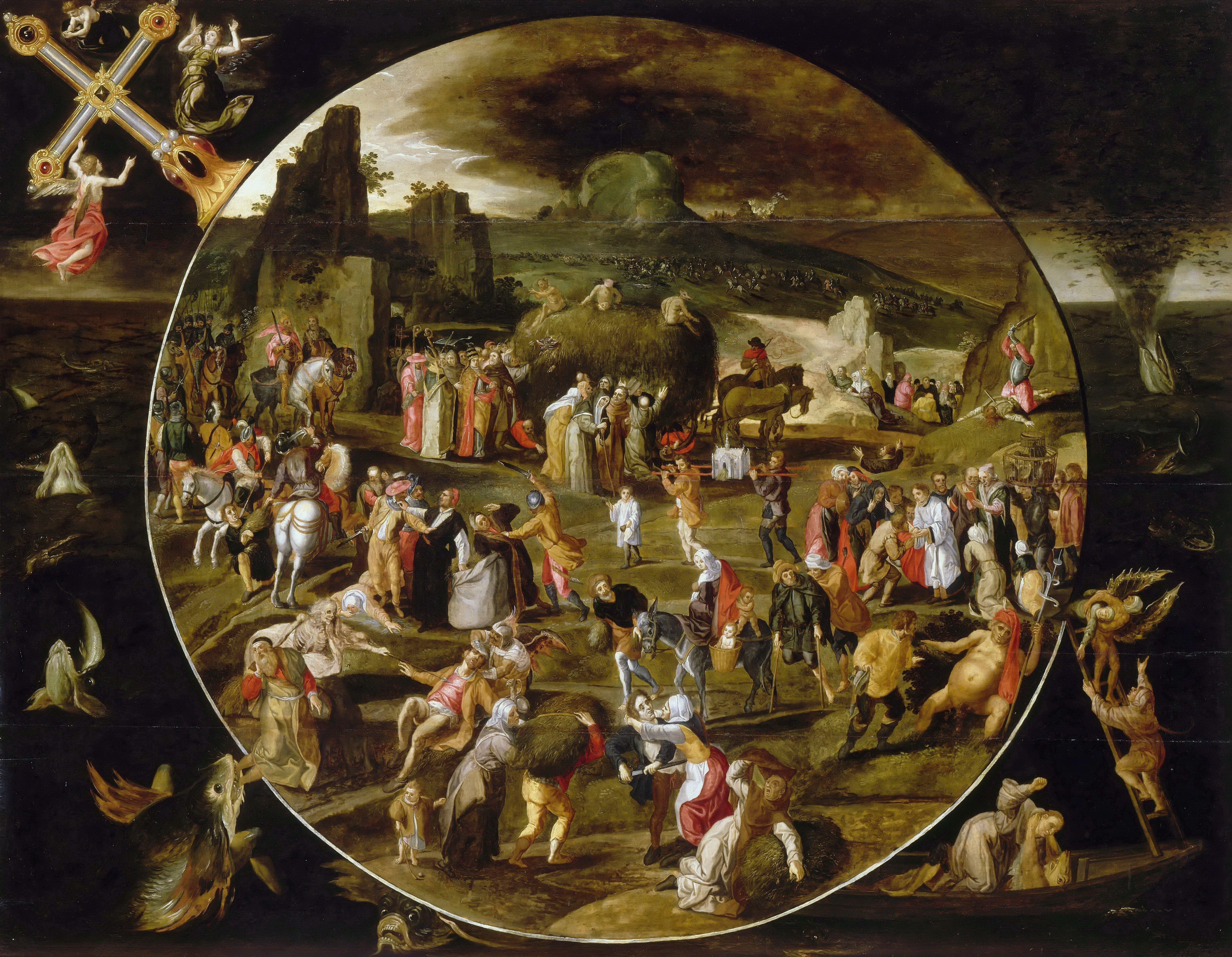 This painting is an allegory of worldly vanity by Gillis Mostaert (or his workshop). It is based on The Haywain by Hieronymus Bosch. It depicts all mankind, from the Pope and Emperor on down to peasants and cripples, being obsessed with straw, a metaphor for worthless pursuits. The design satirizes the form of a triumphal procession, with the hay wagon in place of a triumphal chariot. Various sins, violence, and personified Death are also shown. The scene appears within a larger motif, a circular design with a cross. This represents the globus cruciger, ("cross-bearing orb"), a Christian symbol of the world. The painting is held by the Louvre.